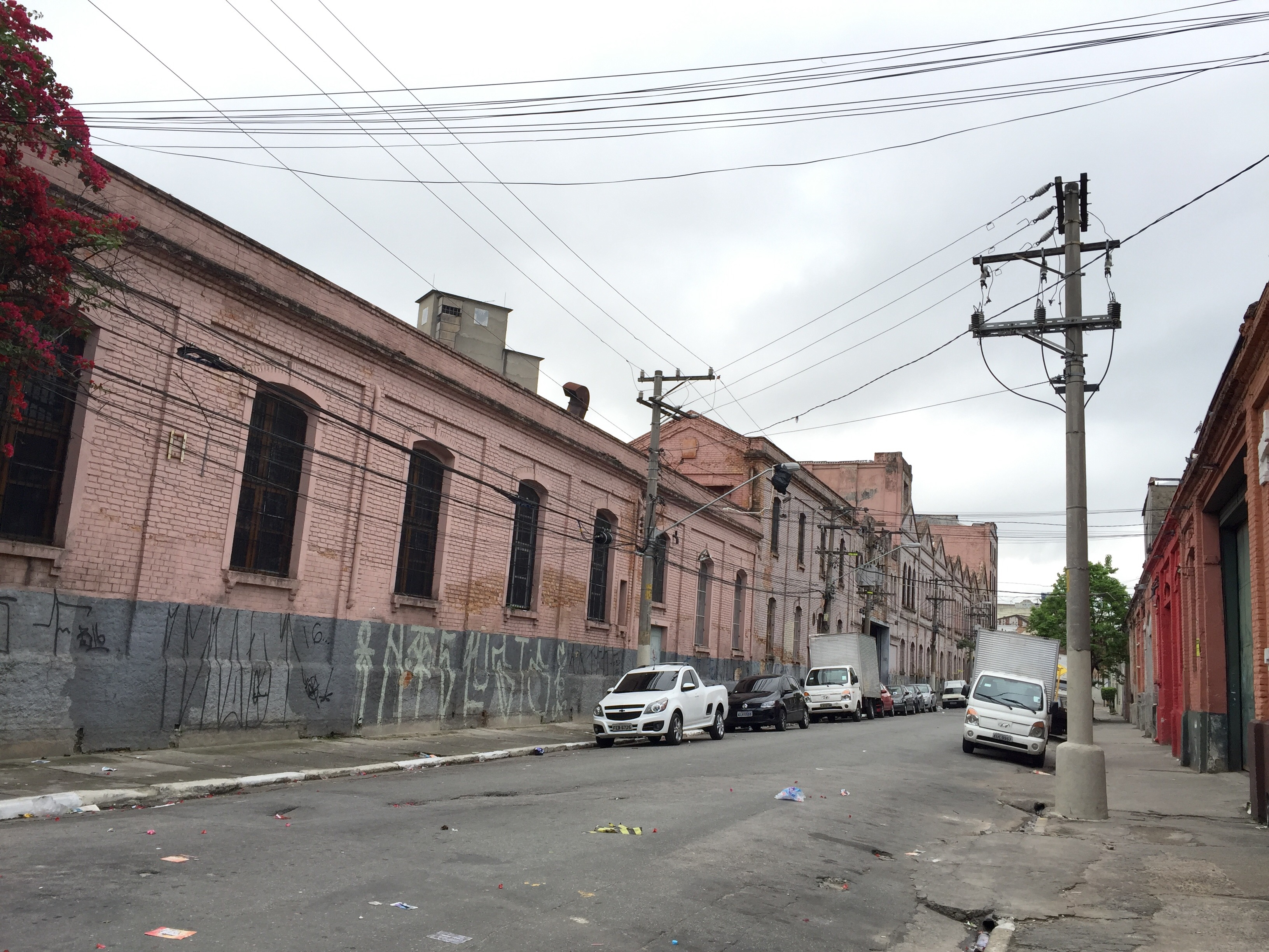 Matarazzo Mill southeast facade to Street Bucolismo, São Paulo, Brazil.